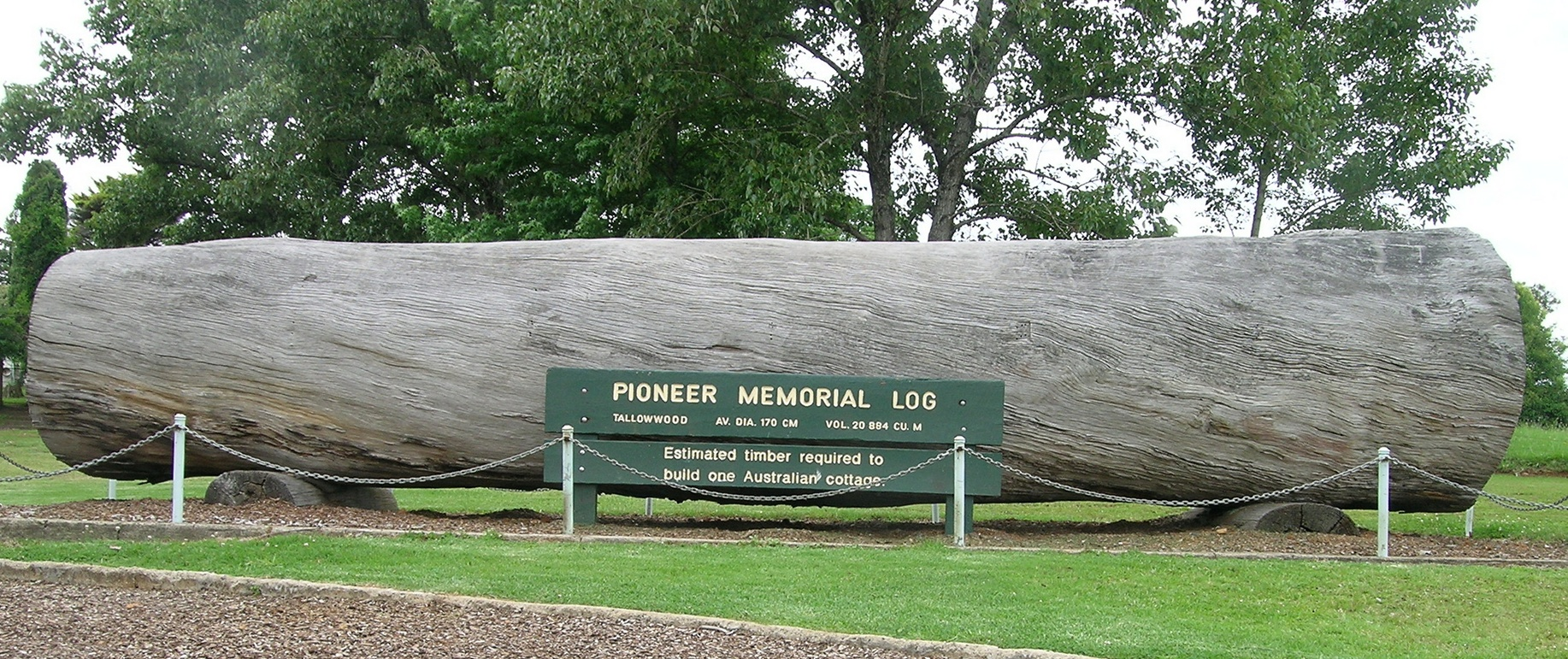 Tallowwood log of the size that it is estimated to be required to build an Australian cottage, Dorrigo, NSW